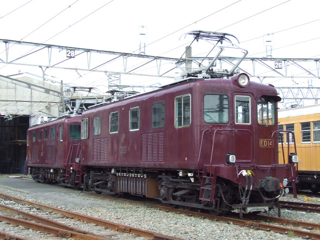 Series ED10,Sagami Railway,Japan